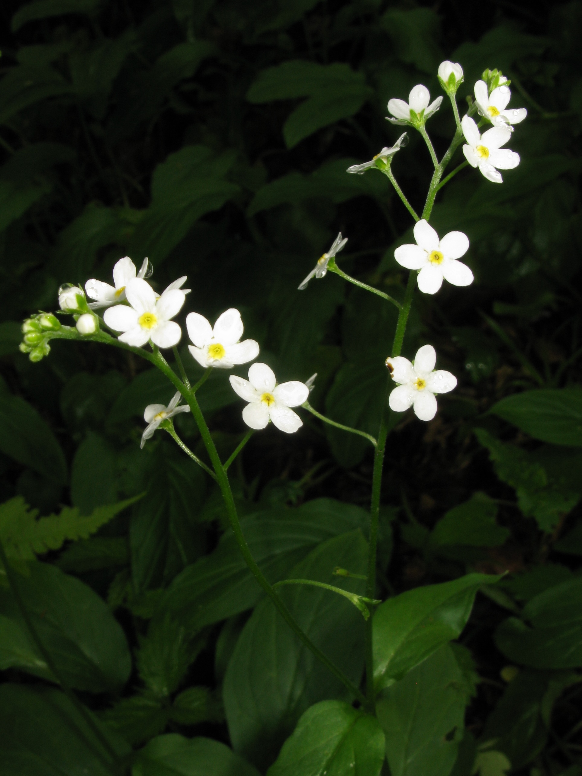 Trigonotis guilielmii, Aizu area, Fukushima pref., Japan